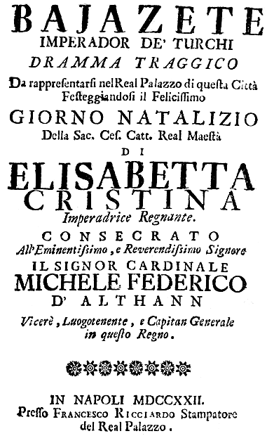 Leonardo Leo - Bajazete - title page of the libretto - Naples 1722